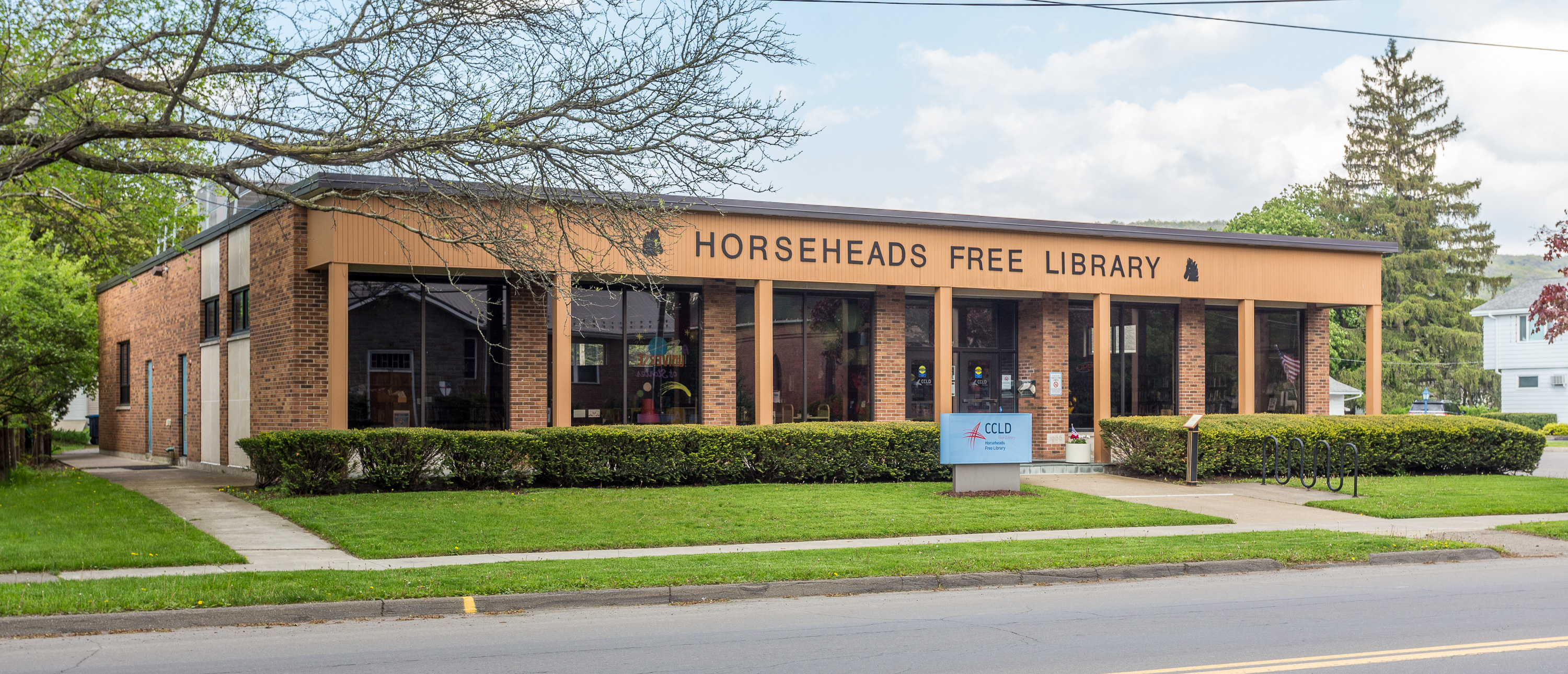 Horseheads Public Library, South Main Street, Horseheads, New York